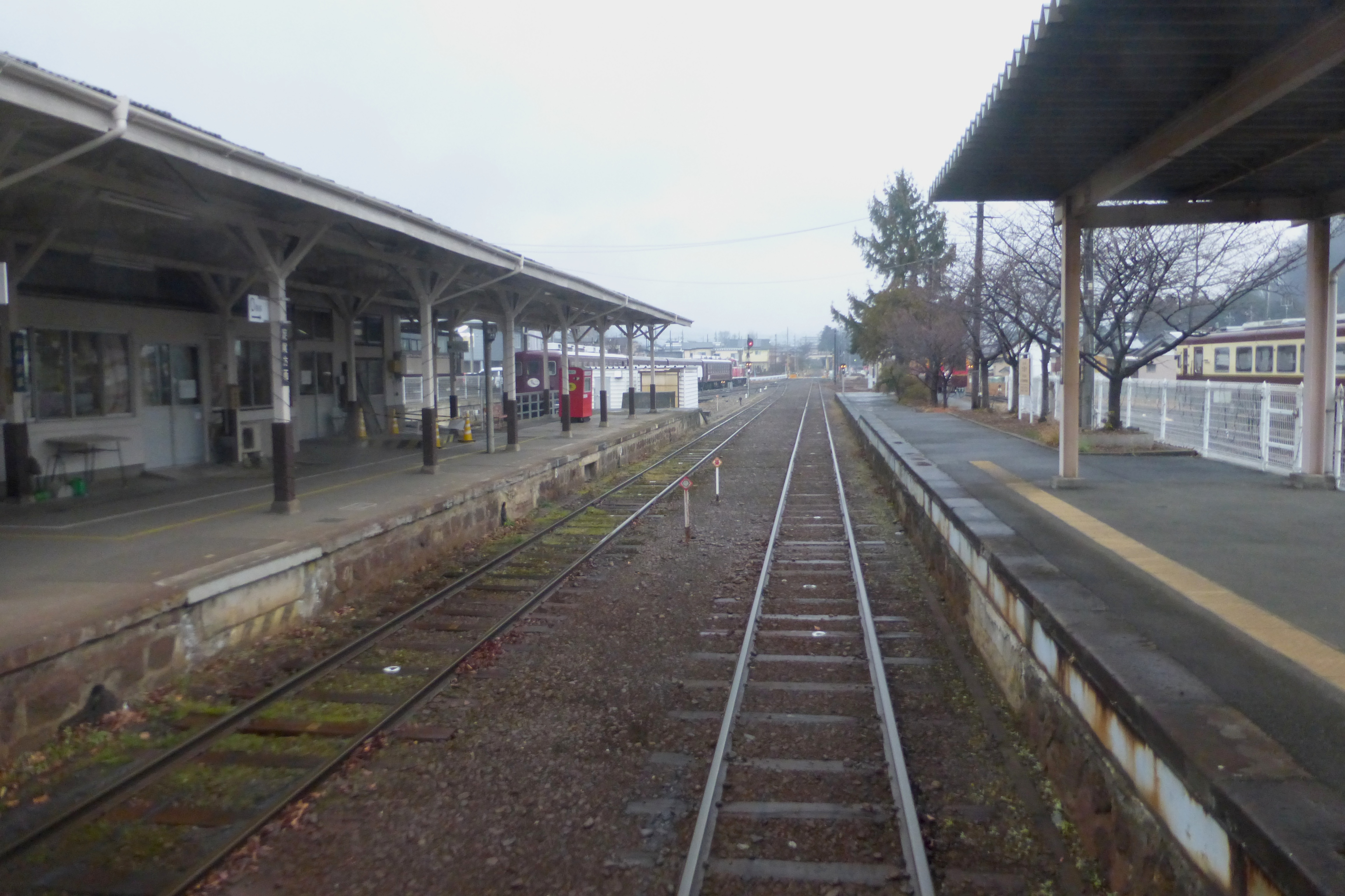 Ōmama Station (大間々駅 Ōmama-eki) platforms on a rainy, almost snowy, day.